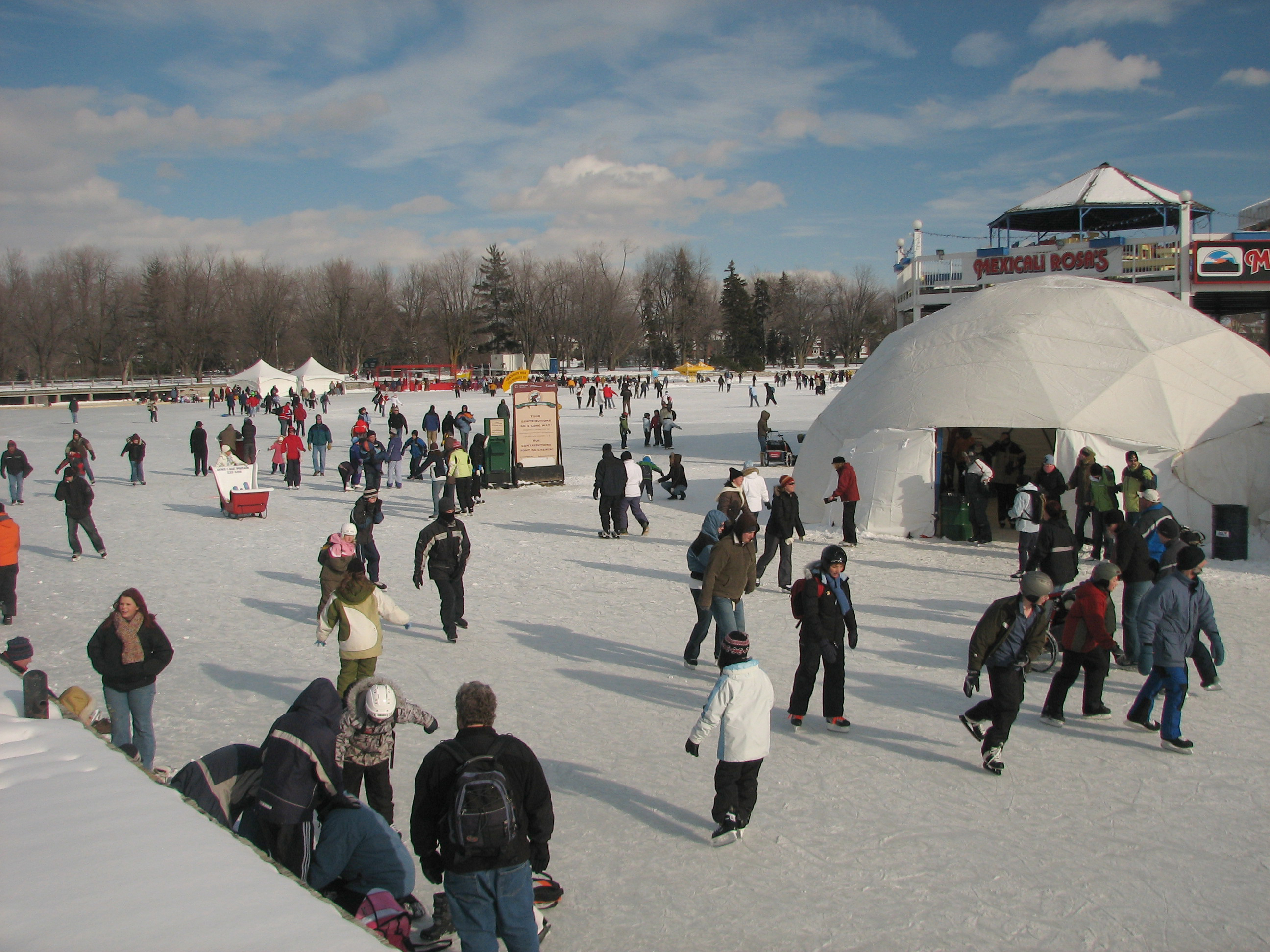 my own stock